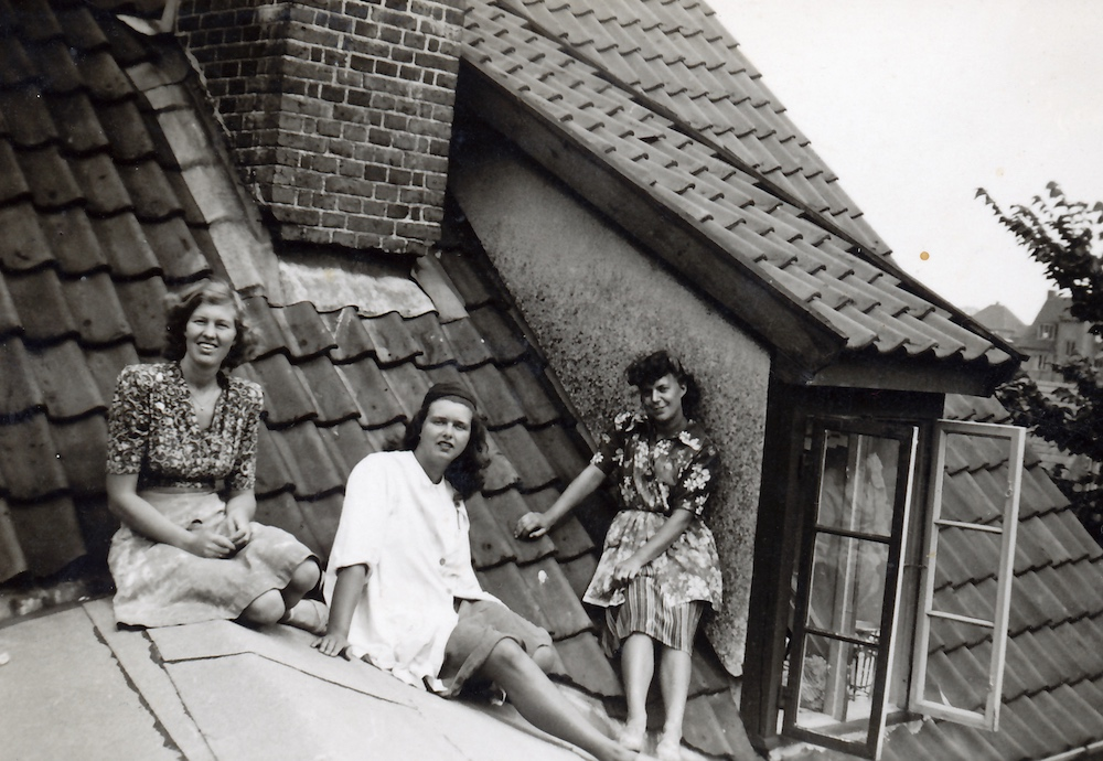 The Danish artist Astrid Tjalk with colleagues on the roof of the Kähler factory building in Næstved 1945